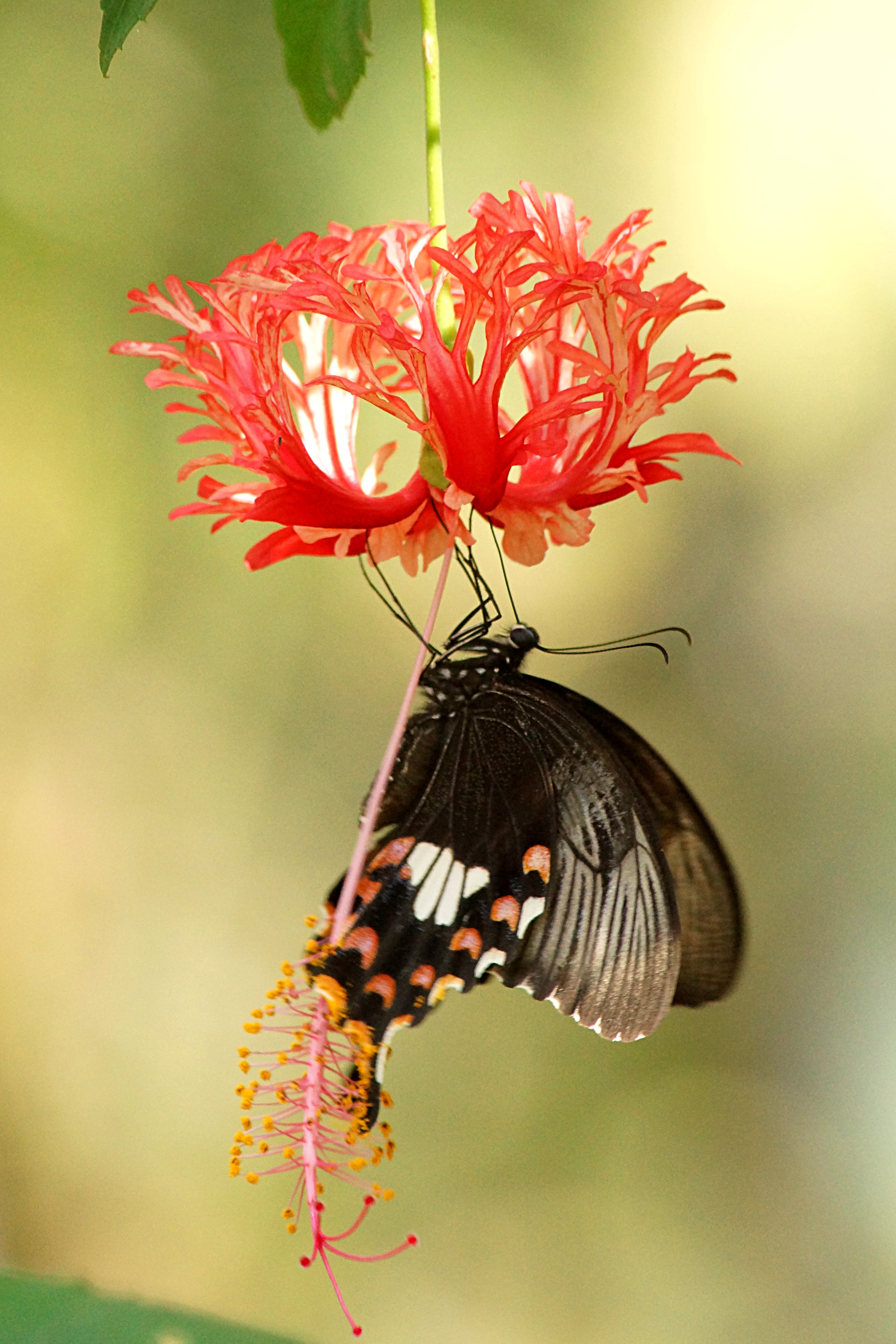 The Common Mormon on Hibiscus schizopetalus